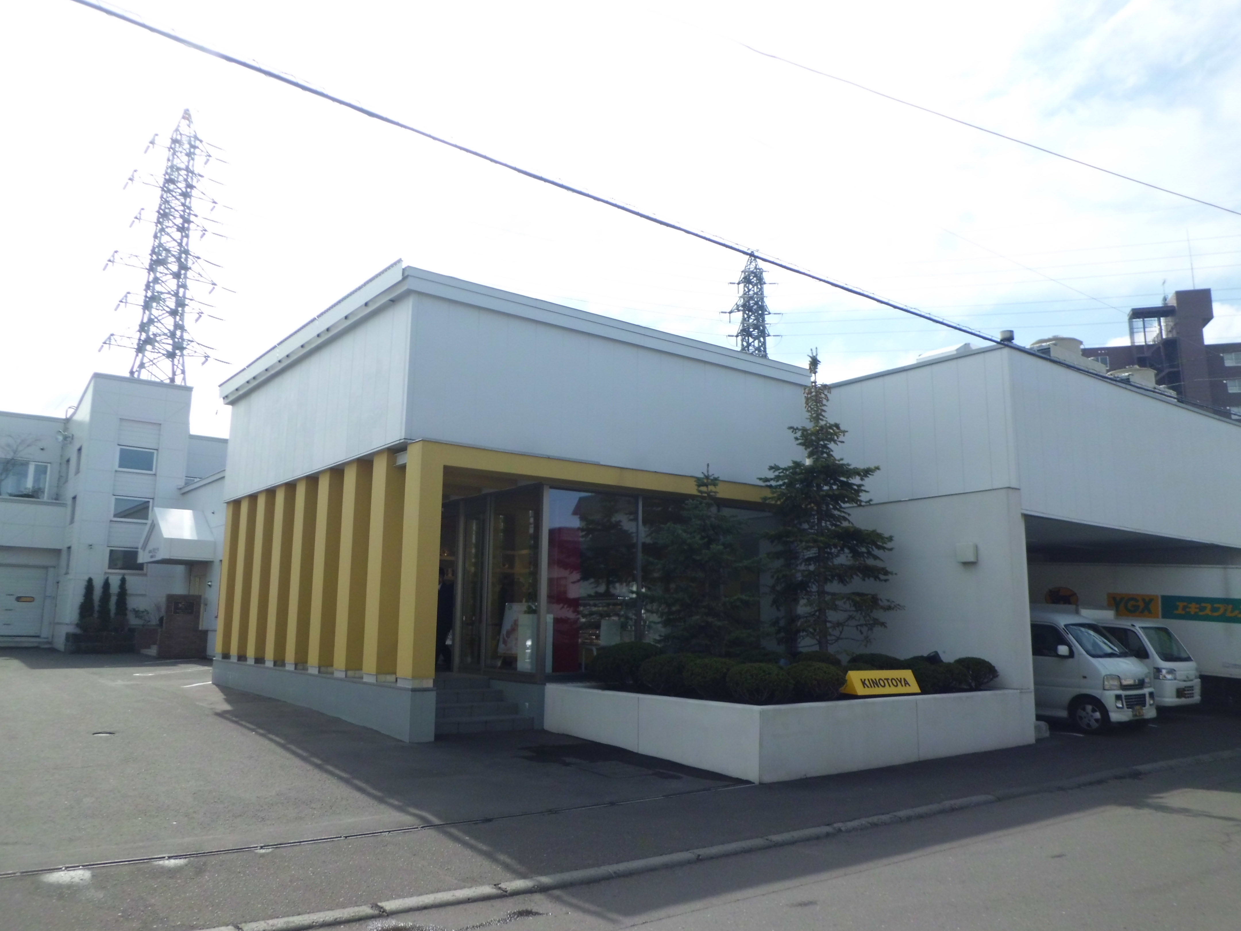 Main office of Kinotoya